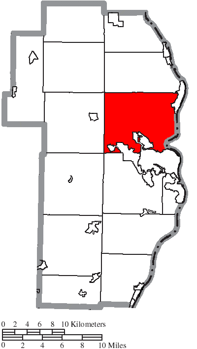 Map of the municipal and township boundaries of Jefferson County, Ohio, United States, as of the 2000 census, with the location of Island Creek Township highlighted. Township borders are shown only in unincorporated areas in order to differentiate incorporated and unincorporated areas more clearly.